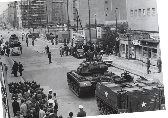 October 1961. The view of the border between the Soviet and American sectors of Berlin from the western side. Photo from the booklet "CIA Analysis of the Warsaw Pact Forces: The Importance of Clandestine Reporting." For more information, visit the CIA's Historical Collections page (